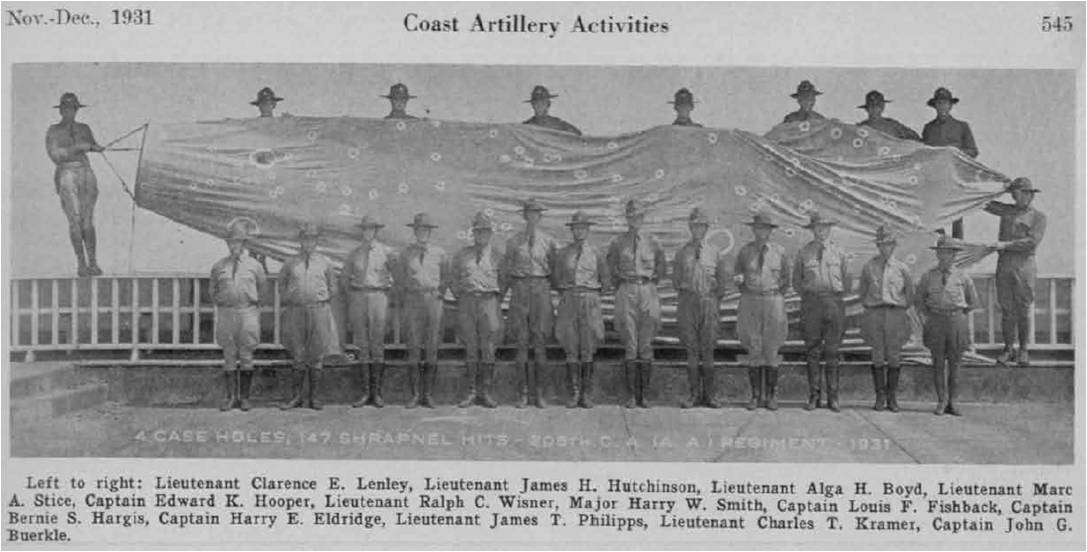 Photo of the results of target pratice at Fort Barrancas Flordia, August 23-29, 1931. The officer's pictured are Lieutenant Clarence E. Lenley, Lieutenant James H. Hutchinson, Lieutenant Alga H. Boyd, Lieutenant Marc A. Stice, Captain Edward K. Hooper, Lieutenant Ralph C. Wisner, Major Harry W. Smith, Captain Louis F. Fishback, Captain Bernie S. Hargis, Captain Harry E. Eldridge, Lieutenant James T. Philipps, Lieutenant Charles T. Kramer, Captain John G. Buerkle. The group of officers standing in front of the target are from the 1st Battalion. Captain Eldridge (who stands fourth from the right made" excellent” last year with 12 hits…..Captain Buerkle commanding Battery D stands immediately in front of the absent part of the tail of the target which he claims he shot away. Captain Hargis who made 12 hits is on Captain Eldridge's right. This image or file is a work of a U.S. National Guard member or employee, taken or made as part of that person's official duties. As a work of the U.S. federal government, the image or file is in the public domain in the United States. – for public domain images from the US National Guard. )